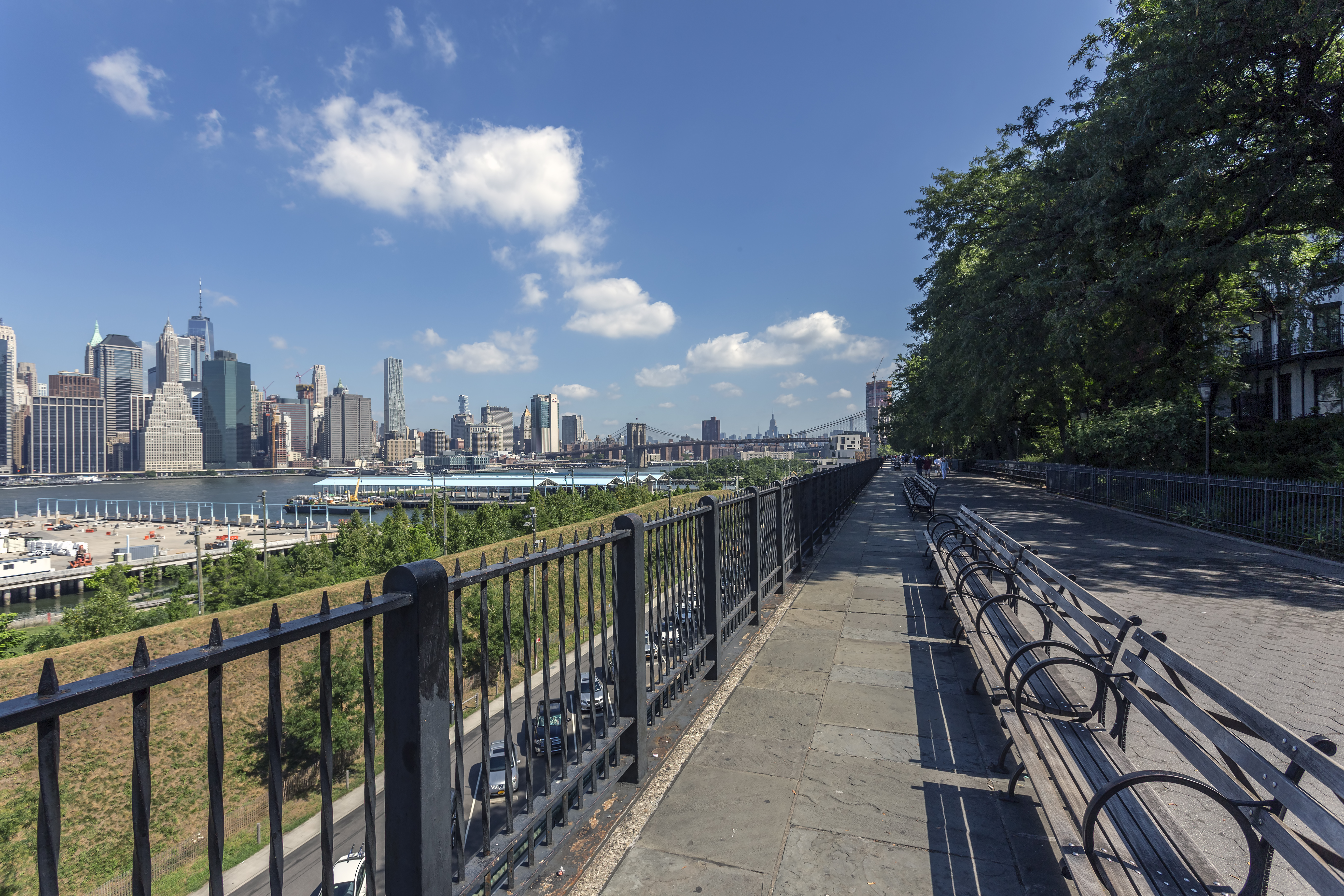 Looking north along the Brooklyn Heights Promenade, New York, USA